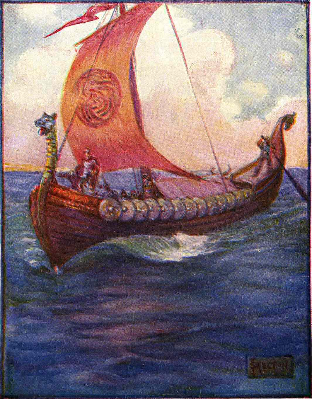 "Beowulf was eager for the contest, so taking with him fifteen warriors and good comrades, he stepped into a ship and bade the captain set sail for Daneland. Then like a bird wind-driven upon the waves, the foam-necked ship sped forth. For two days the warriors fared on over the blue sea, until they came again to Daneland and anchored beneath the steep mountains of that far shore." An illustration of Beowulf sailing to Daneland. Title illustration